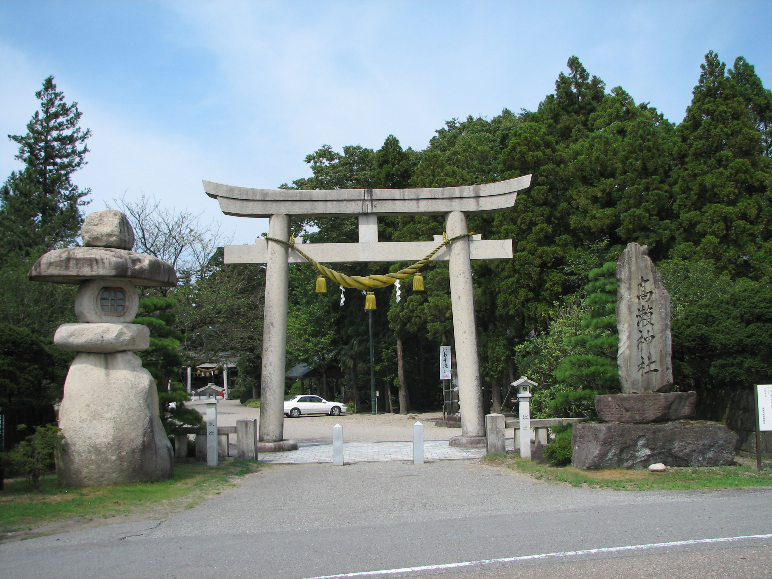 the torii of Takase Shrine, Nanto, Toyama, Japan 高瀬神社鳥居（富山県南砺市）